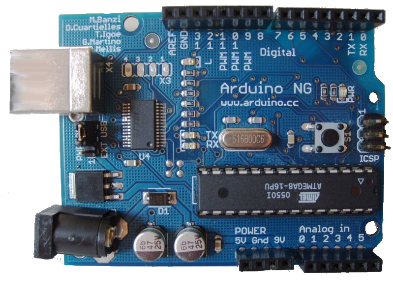 an Arduino NG microcontroller with a transparent background